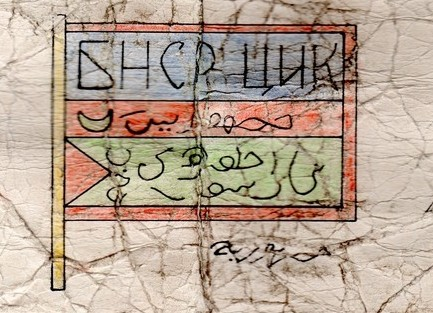 Знак_депутата_ЦИК_БНСР_проект